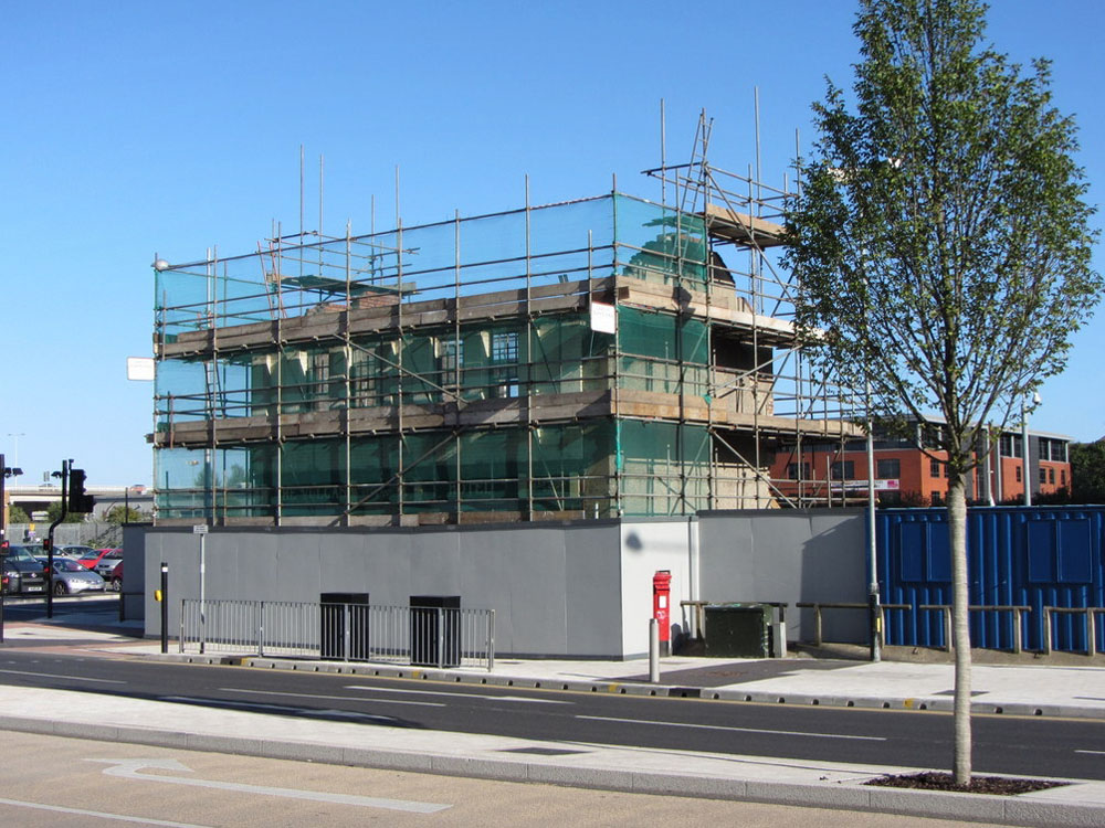 The Vulcan pub, Cardiff, finally closed its doors in May 2012 after a long campaign to save it. It is now being dismantled, and will be re-erected at the Museum of Welsh Life at St. Fagans. Shown being dismanteled in August 2012.